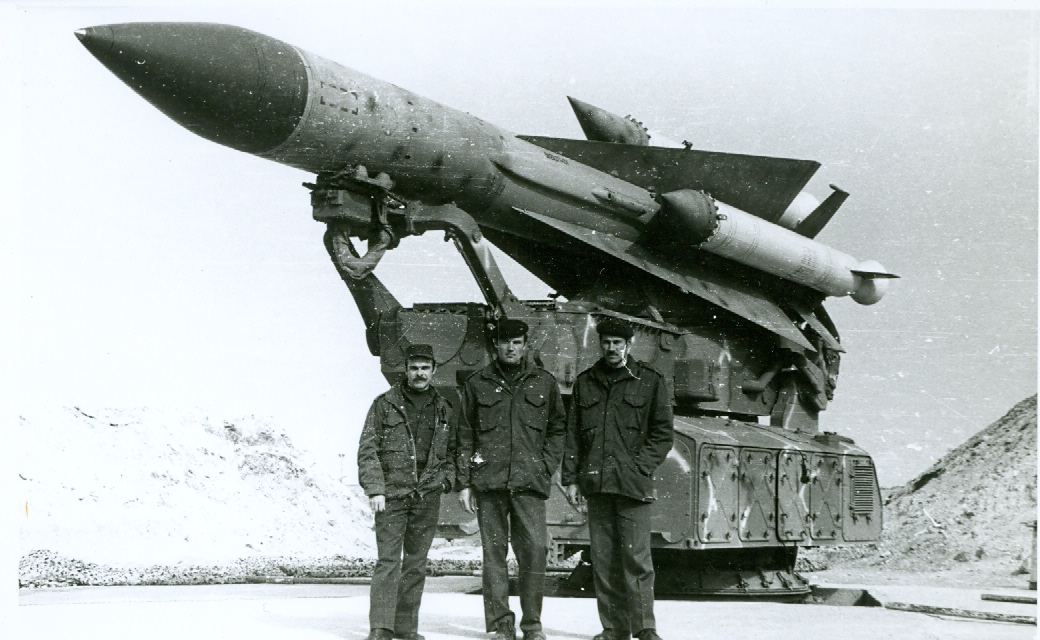 231st AA SAM Regiment military hardware.